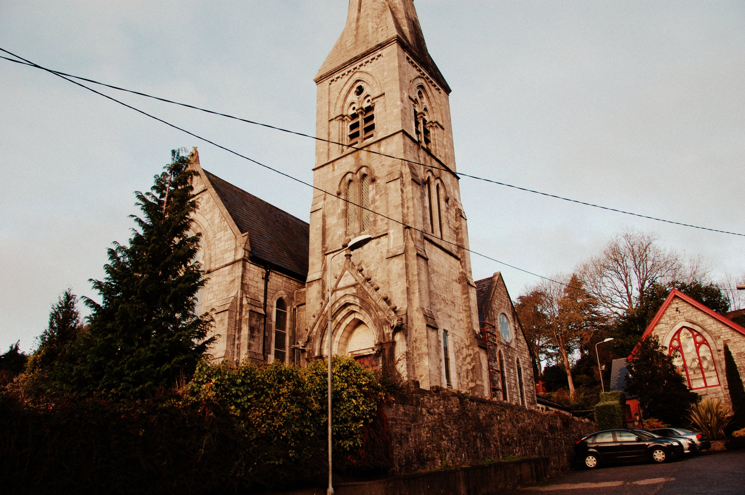 Our Lady of the Rosary Church